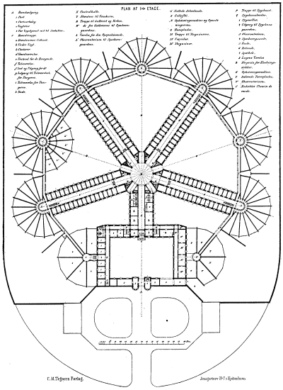 Plan of the first floor of Vridsløselille Prison in Albertslund, Denmark